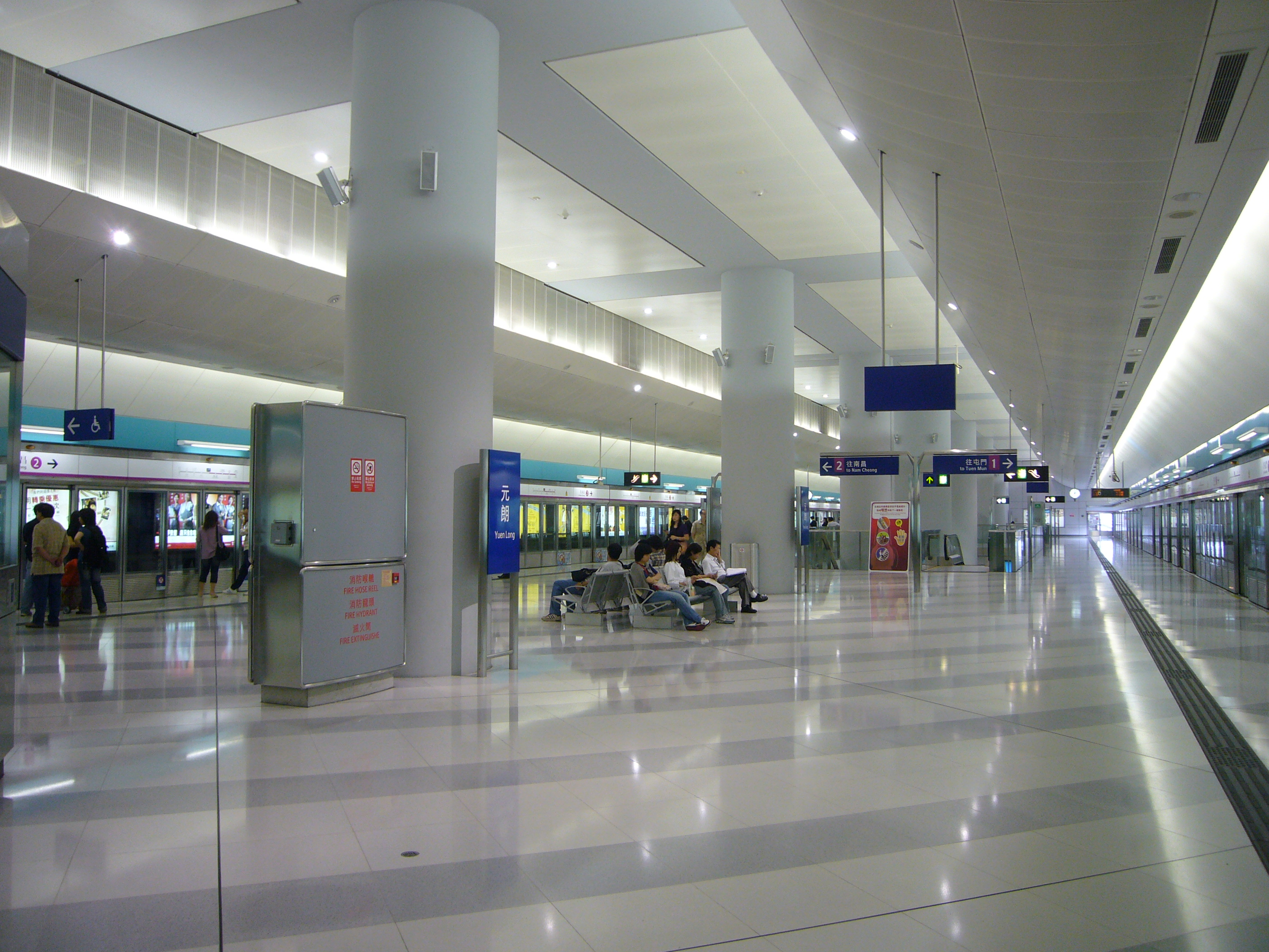 Yuen Long station platform 1~2